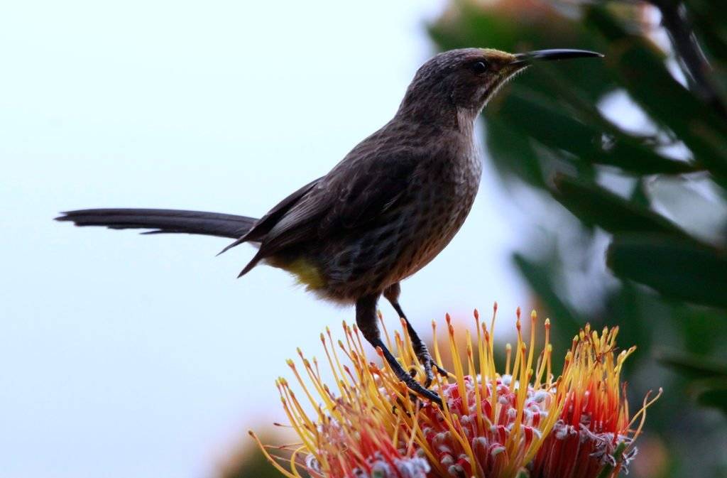 Cape Sugarbird, Promerops cafer, female at Kirstenbosch